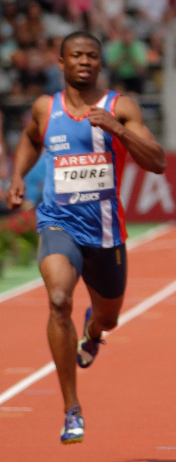 Christophe Lemaître wins the first series of the men's 100-metre race in 10"26 during the French Athletics Championships 2013 at Stade Charléty in Paris, 13 July 2013.